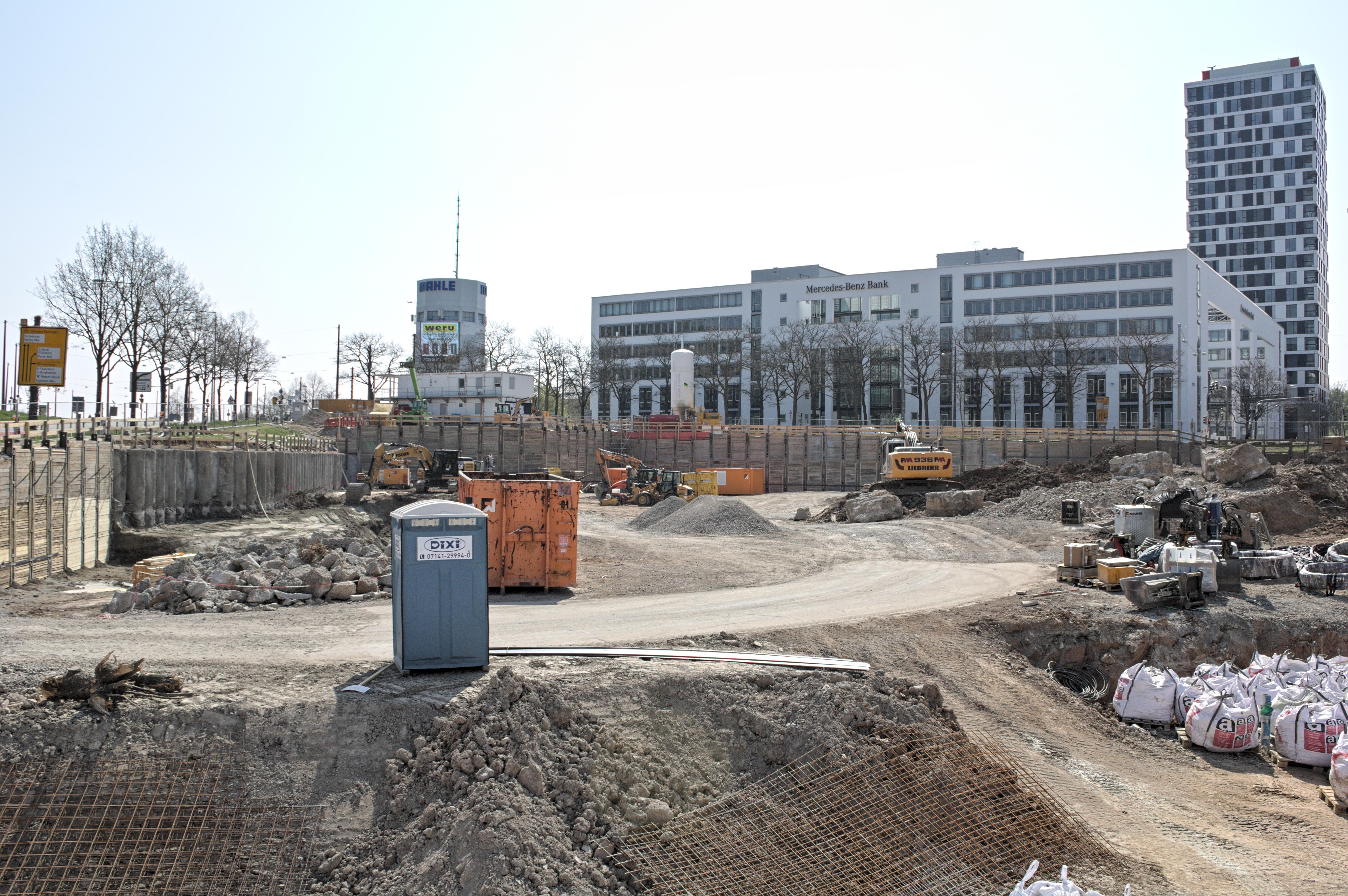 Porsche_Design_Tower_(Stuttgart) in Stuttgart